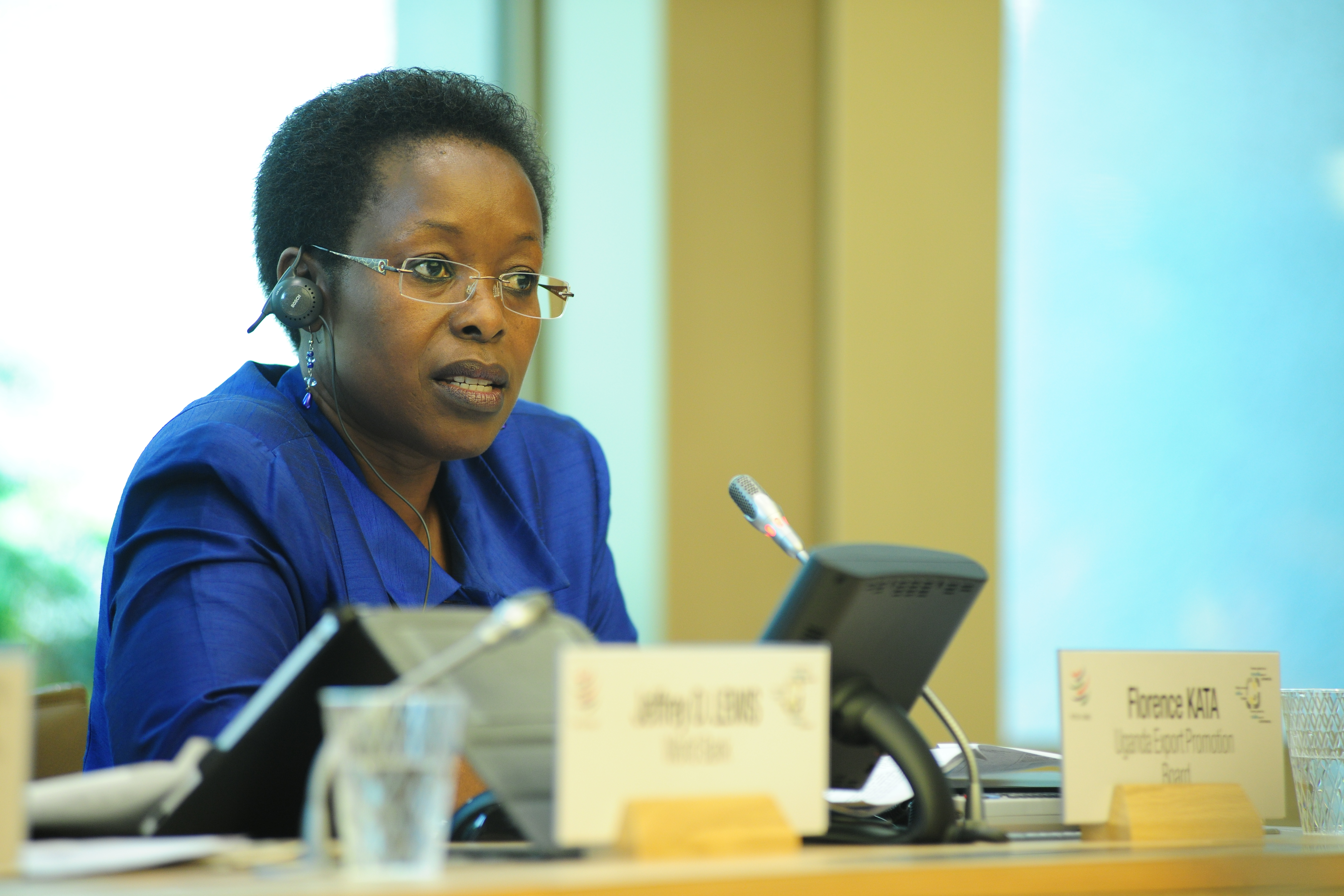 Florence Kata, the CEO of the Uganda Export Promotion Board at the Fourth Global Review of Aid for Trade, 8-10 July 2013.